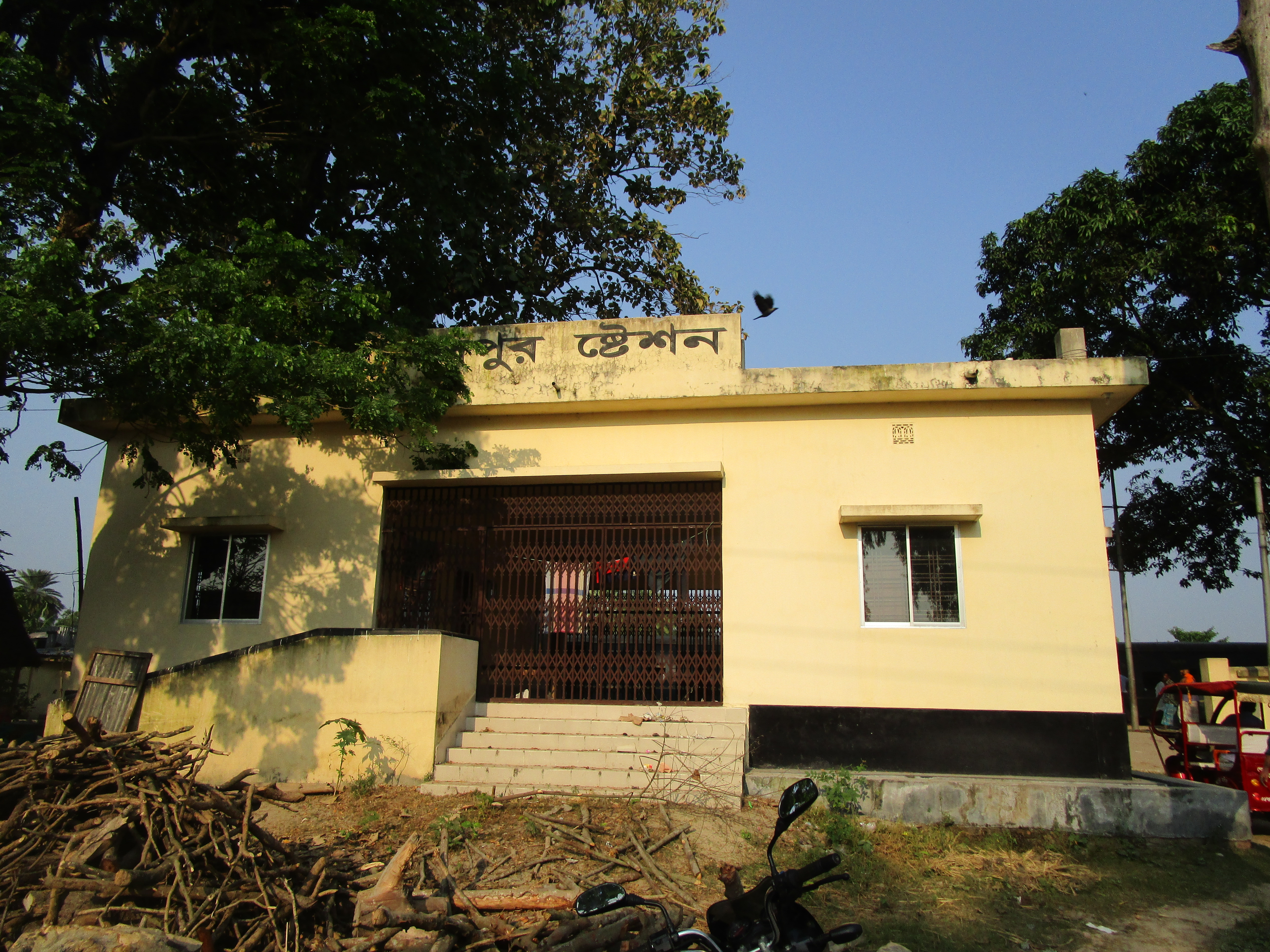 Mangolpur Railway Station at Birol Upazila.